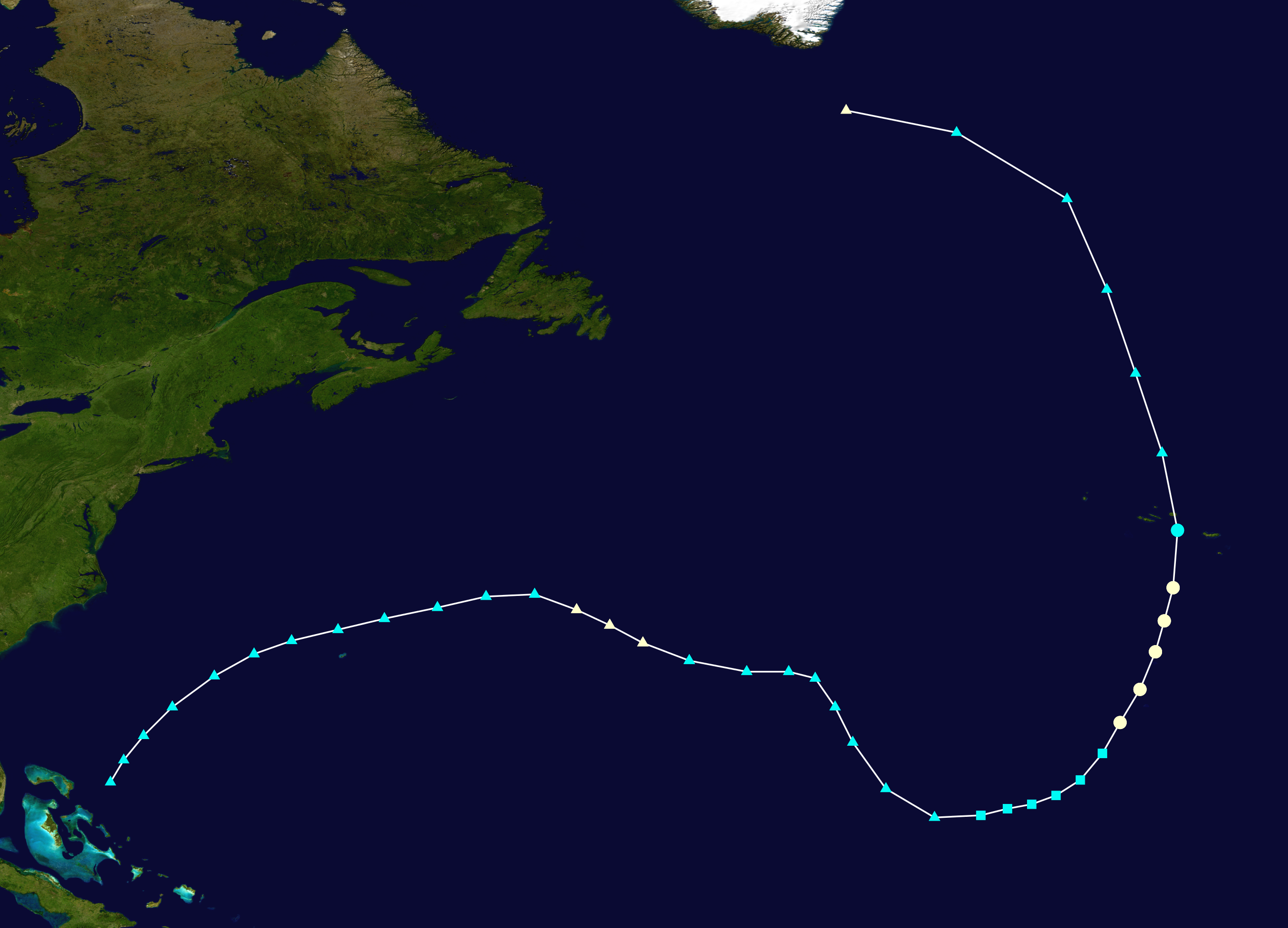 Track map of Hurricane Alex of the 2016 Atlantic hurricane season. The points show the location of the storm at 6-hour intervals. The colour represents the storm's maximum sustained wind speeds as classified in the Saffir–Simpson scale (see below), and the shape of the data points represent the nature of the storm, according to the legend below. Saffir–Simpson scale Tropical depression≤38 mph≤62 km/h Category 3111–129 mph178–208 km/h Tropical storm39–73 mph63–118 km/h Category 4130–156 mph209–251 km/h Category 174–95 mph119–153 km/h Category 5≥157 mph≥252 km/h Category 296–110 mph154–177 km/h Unknown Storm type Tropical cyclone Subtropical cyclone Extratropical cyclone / Remnant low / Tropical disturbance / Monsoon depression